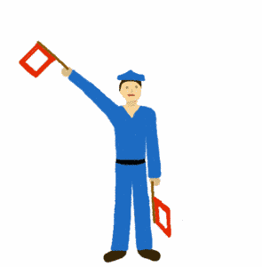 Letter C of the nautical semaphore flag signalling system Source: Martin Hawlisch (User:LosHawlos) My own drawing done in gimp First uploaded to de: in jun-2004